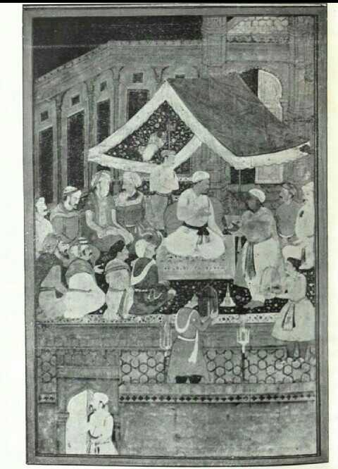 From illustrated Nal daman.